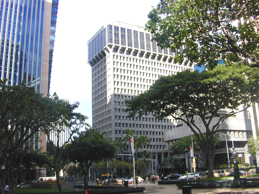 Downtown Honolulu, Hawaii photo taken by Eric Guinther and donated to Wikipedia under GNU. Category:Images of Honolulu, Hawaii